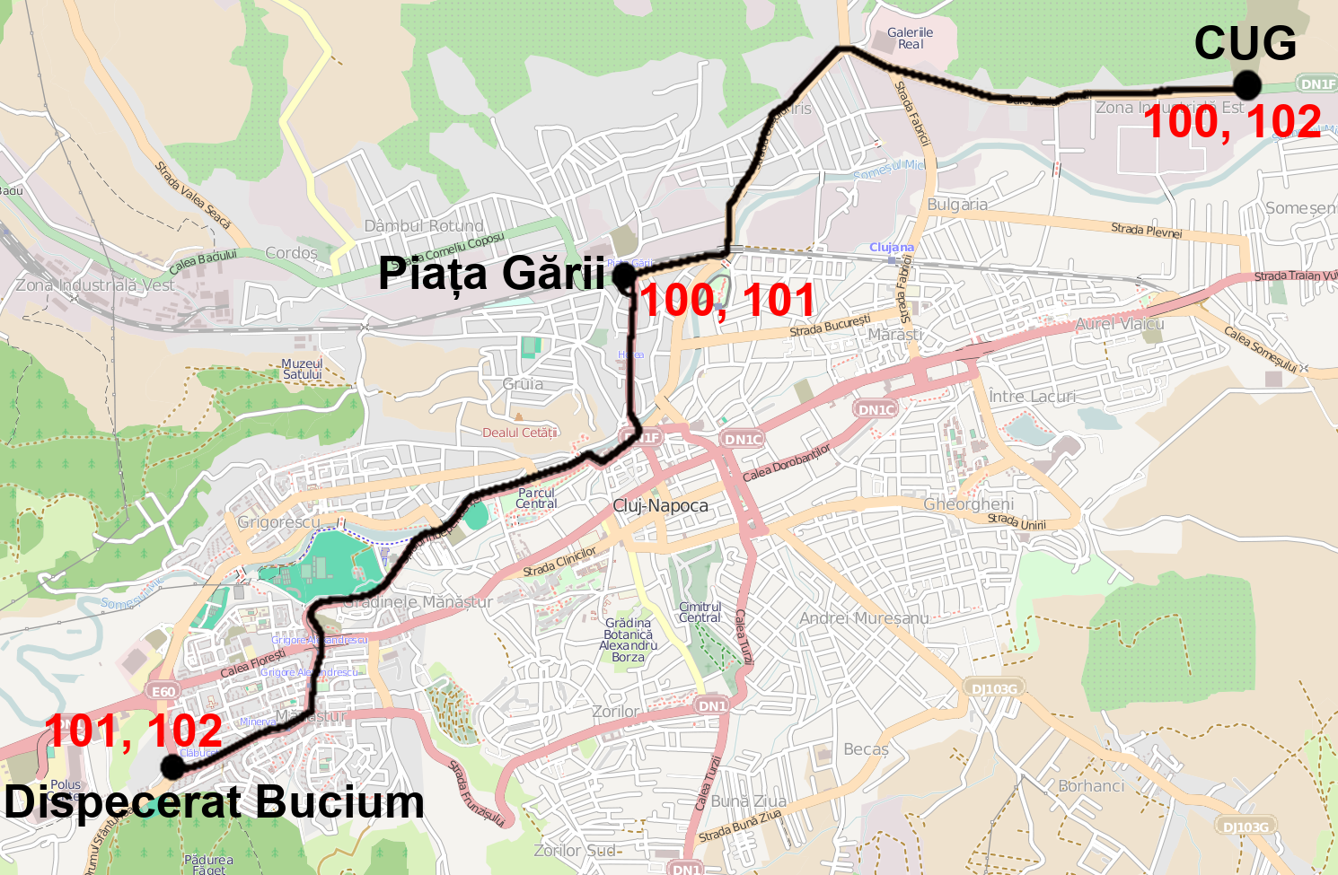 Tramway network of Cluj-Napoca, Romania